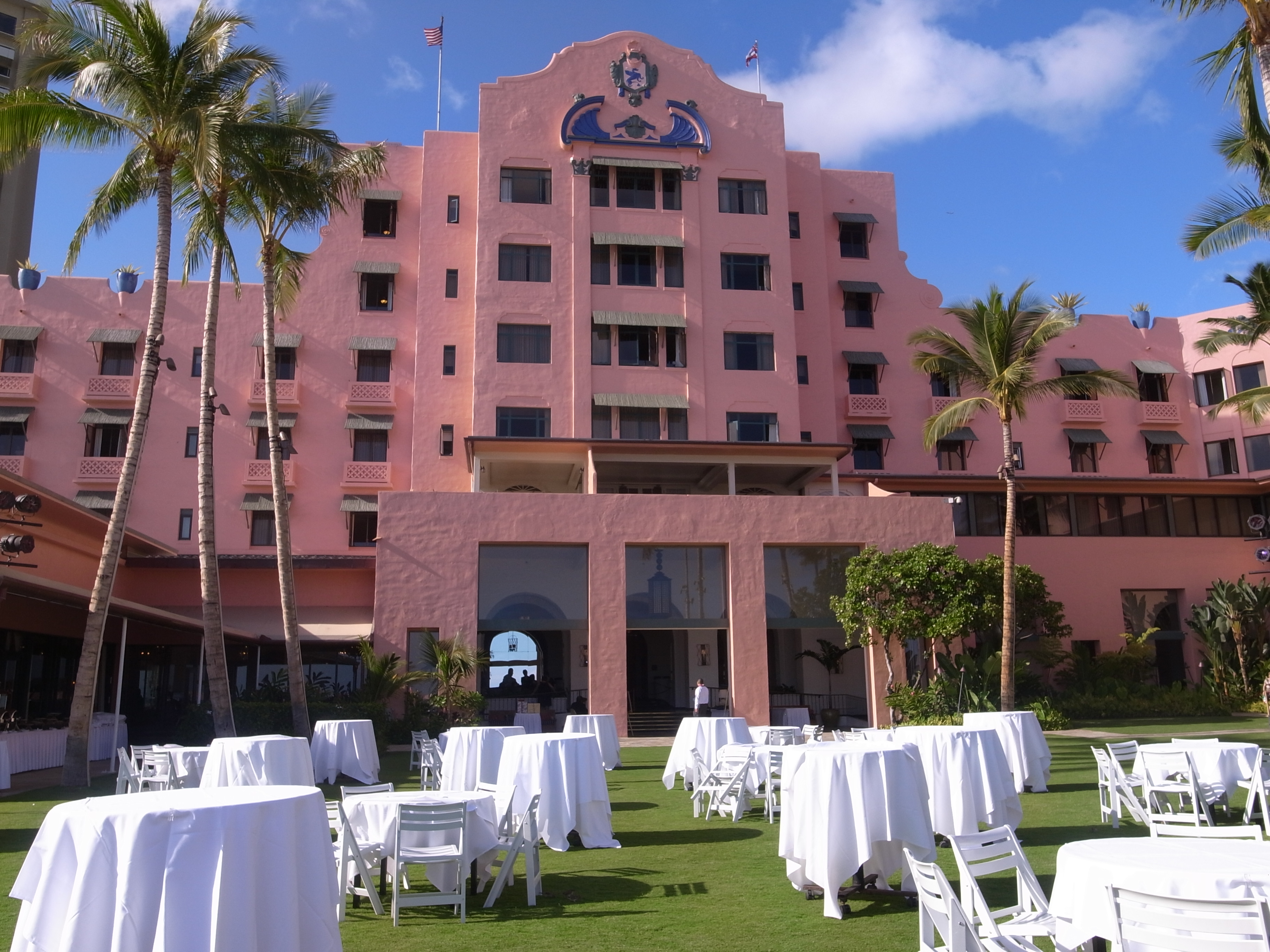 Royal Hawaiian